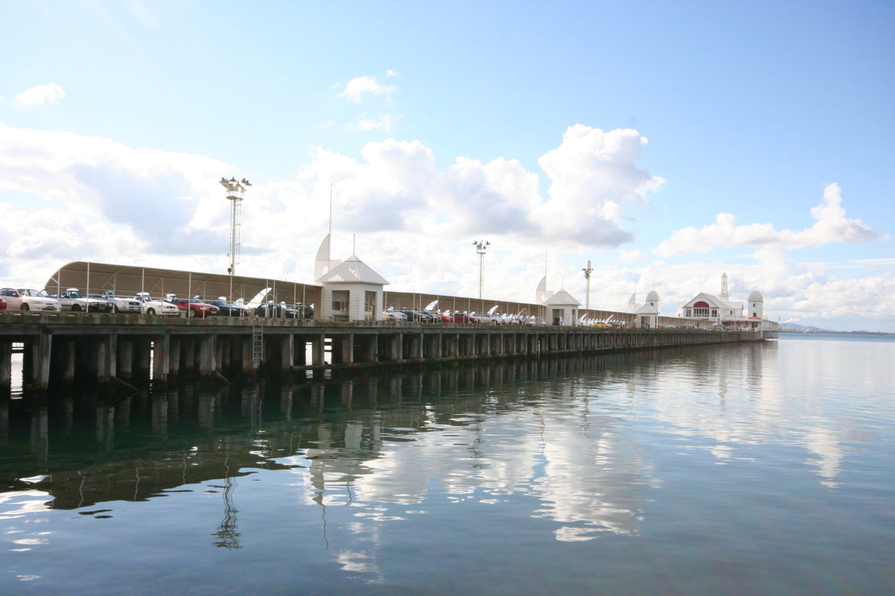 Cunningham Pier and Smorgeys restaurant on Corio Bay - Geelong Victoria Australia